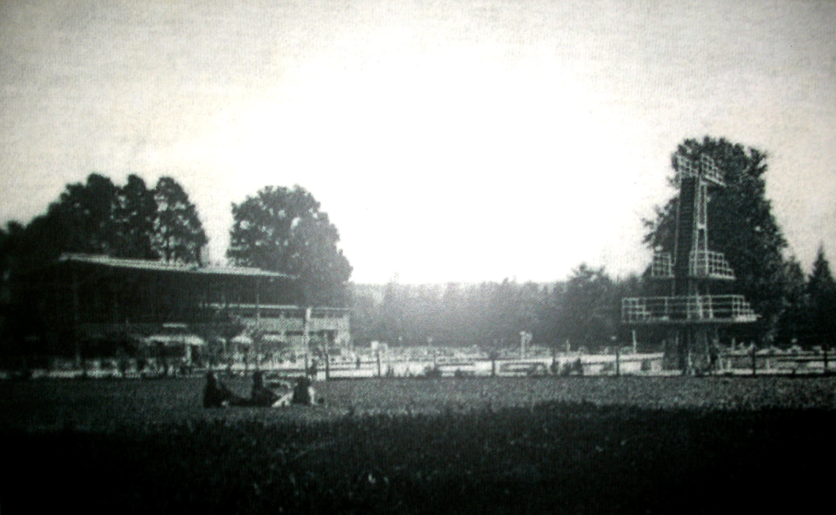 It was the first swimming pool in rural settlements